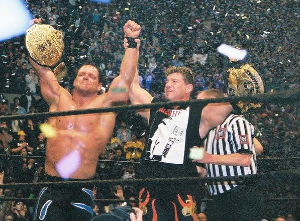 A picture of Eddie Guerrero and Chris Benoit, taken by me at WrestleMania XX